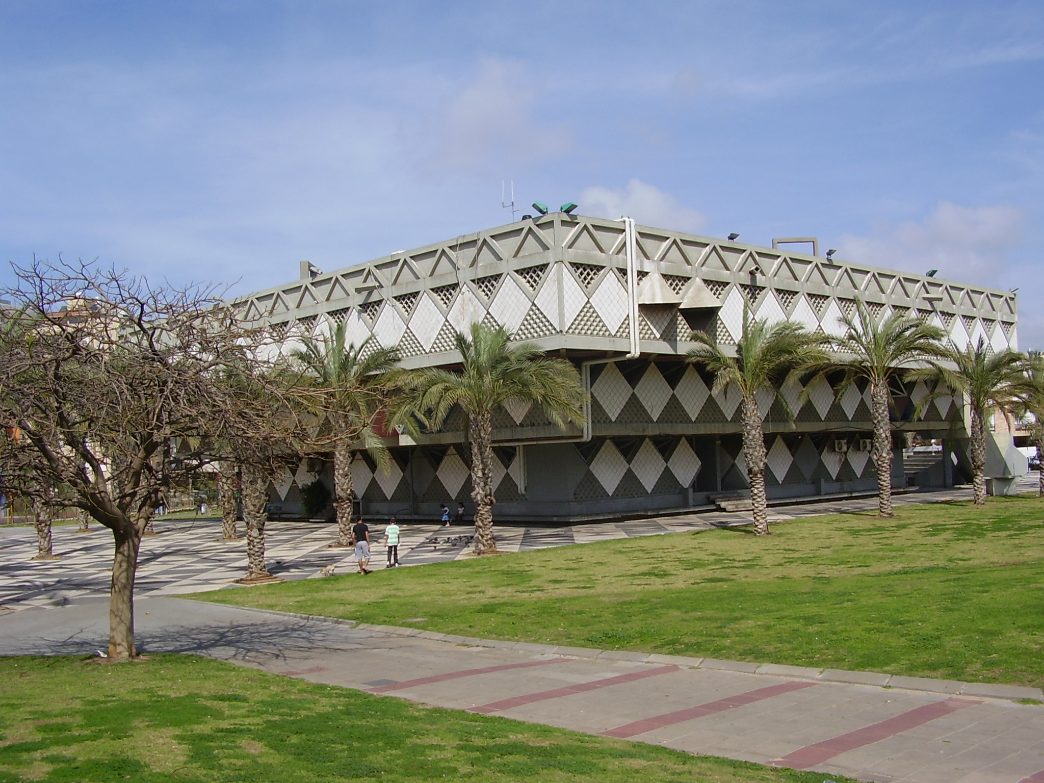 bat-yam municipallity